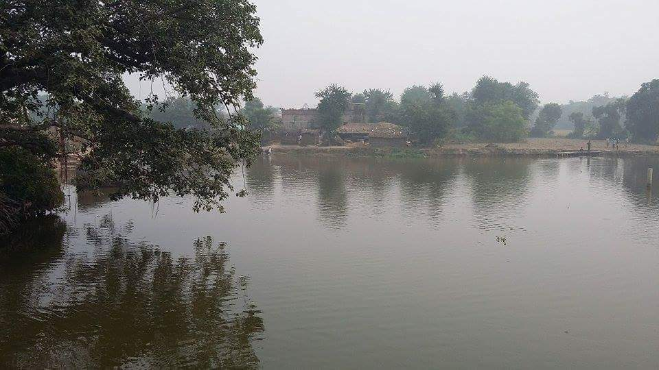 holy pond named Singrahi in Kumai Village